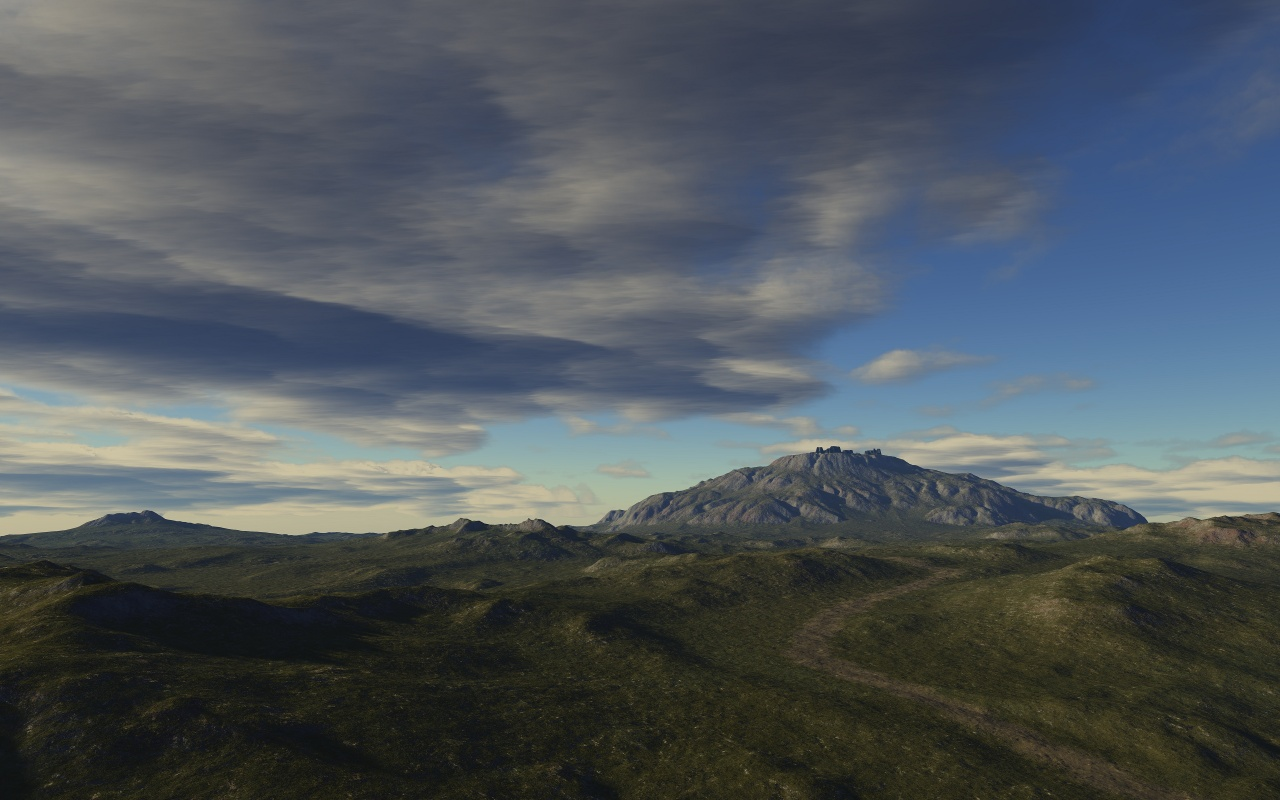 Artist's depiction of Amon Sûl (Weathertop), a hill in Eriador, Middle-earth.